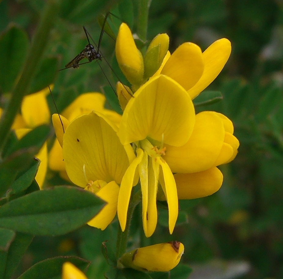 Please report references to .